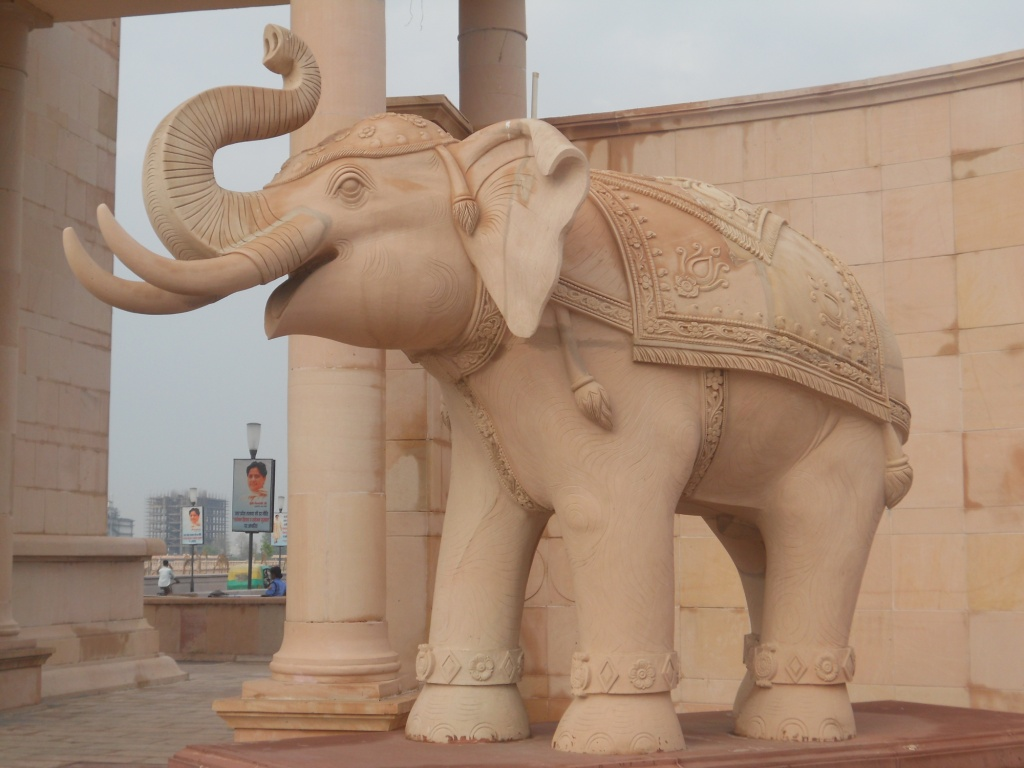 at lucknow